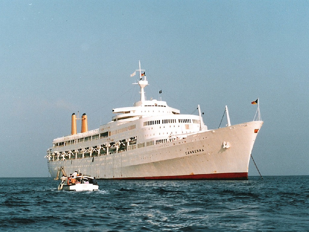 ss Canberra, Limassol, Cyprus